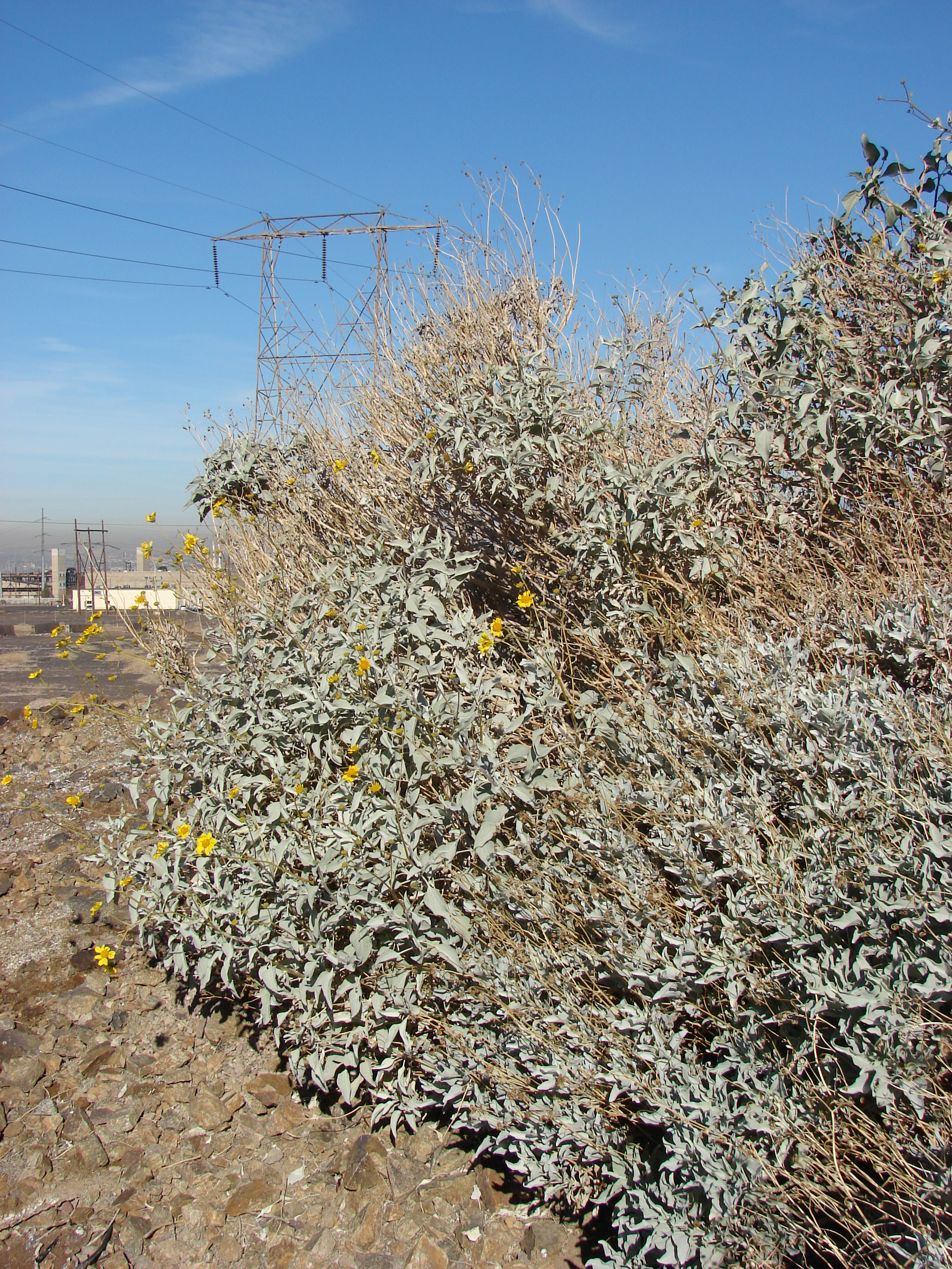 Encelia farinosa (flowering habit). Location: Nevada, Lake Mead Dr